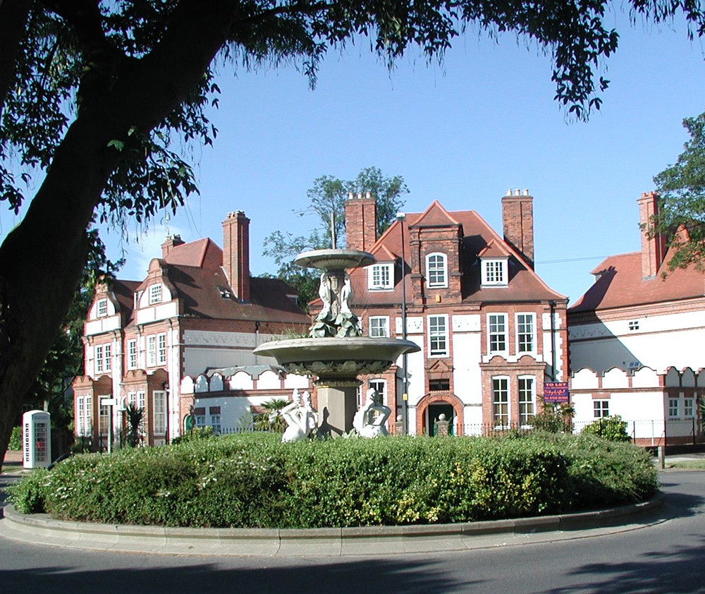 Houses designed by Gilbert Scott junior, The Avenues, Hull,England.